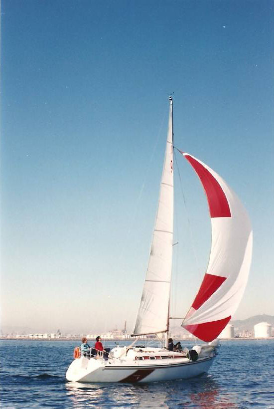 Fortuna 9, diseño de Javier Visiers